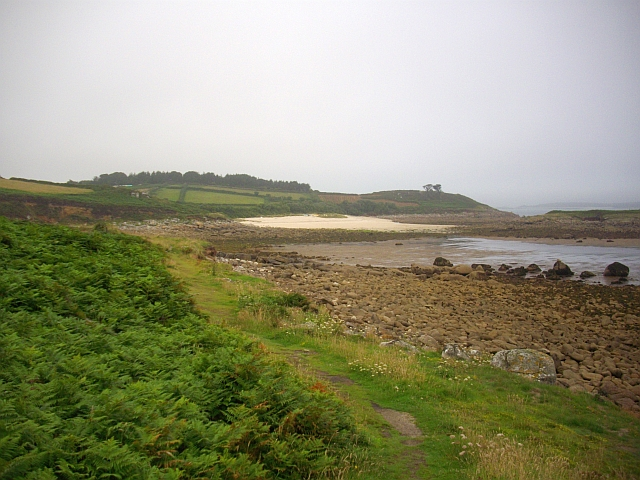 Gilbert's Porth, South Pelistry Bay, St. Mary's The sand provides a tidal causeway to Toll's Island (on the right).